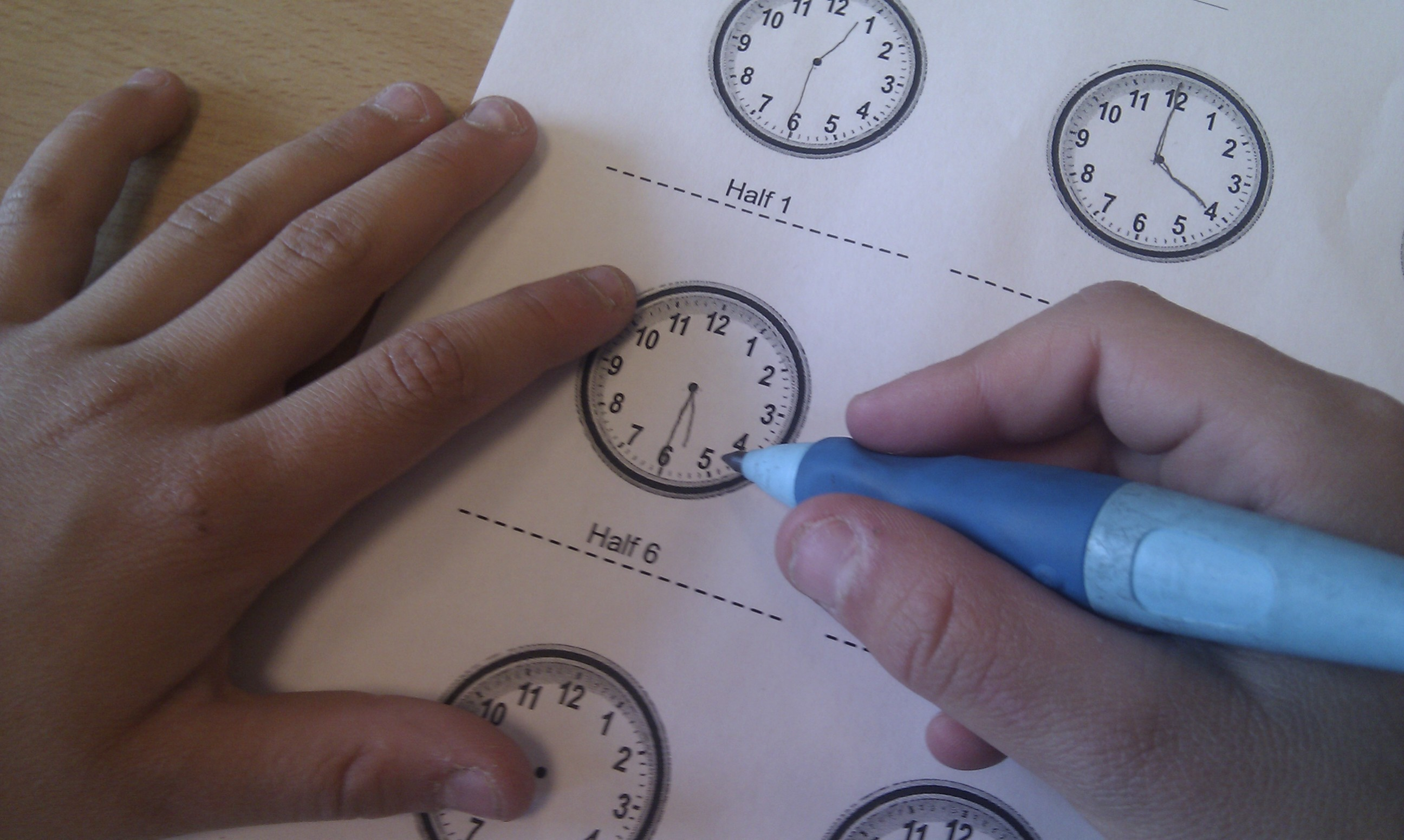 Photo taken in my own classroom. I am a teacher at an elementary school in the Netherlands.